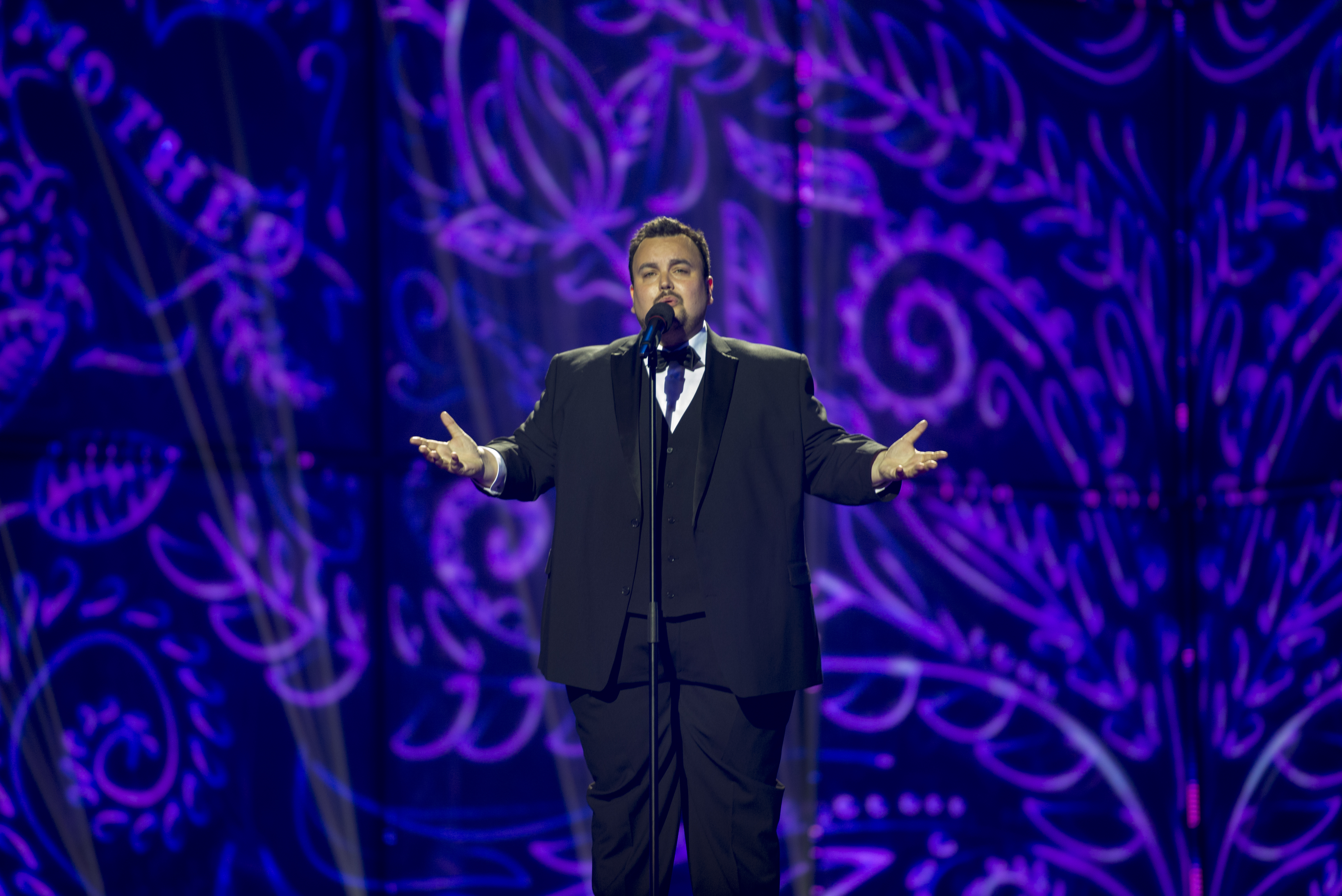 Axel Hirsoux representing Belgium with the song "Mother" during the first dress rehearsal of the first semi final of the Eurovision Song Contest 2014 Copenhagen. (Help translate this text)